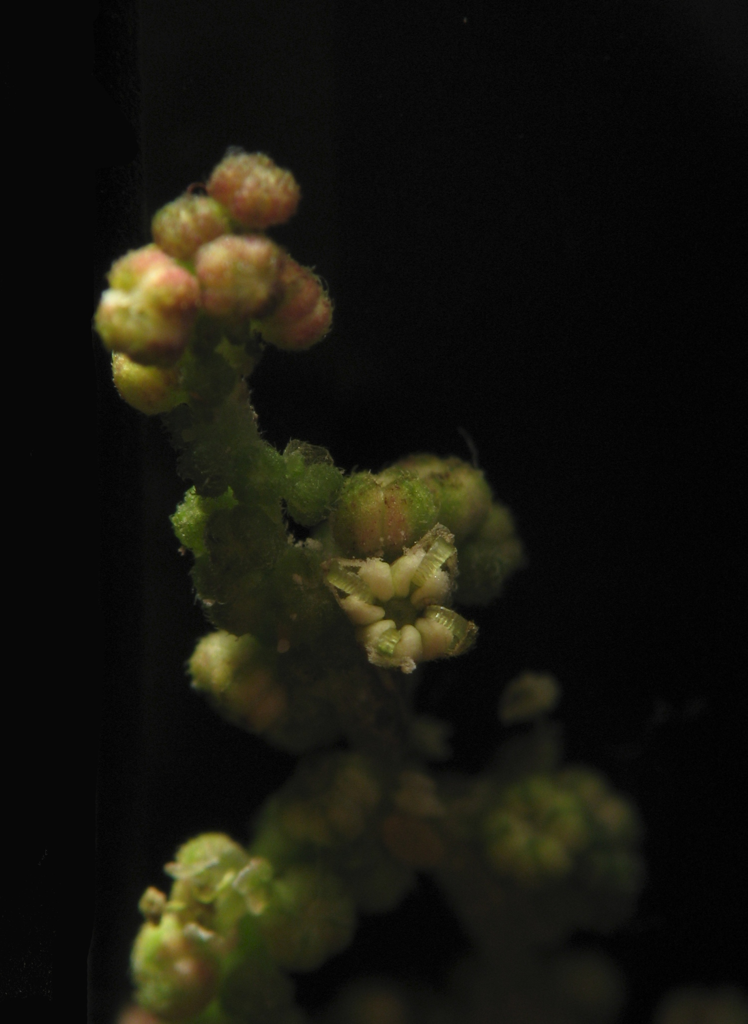 a flowering male Urtica dioica closeup on the wind pollination mechanism